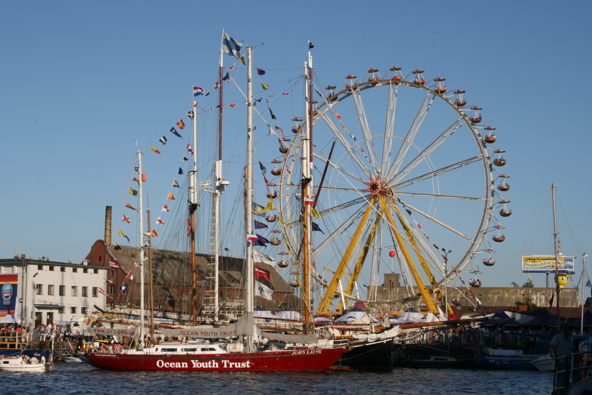 Ocean Youth Trust, John Laing, The Tall Ships' Races, Szczecin 2007